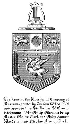 Arms of the Worshipful Company of Musicians, scanned from official history of the company, published in 1905.